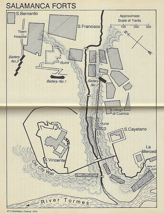 The map is labeled SALAMANCA FORTS and shows the French forts in the city of Salamanca, Spain that were forced to surrender in a siege that ended on 27 June 1812. Published in 1914 by Charles Oman in A History of the Peninsular War - Volume 5.